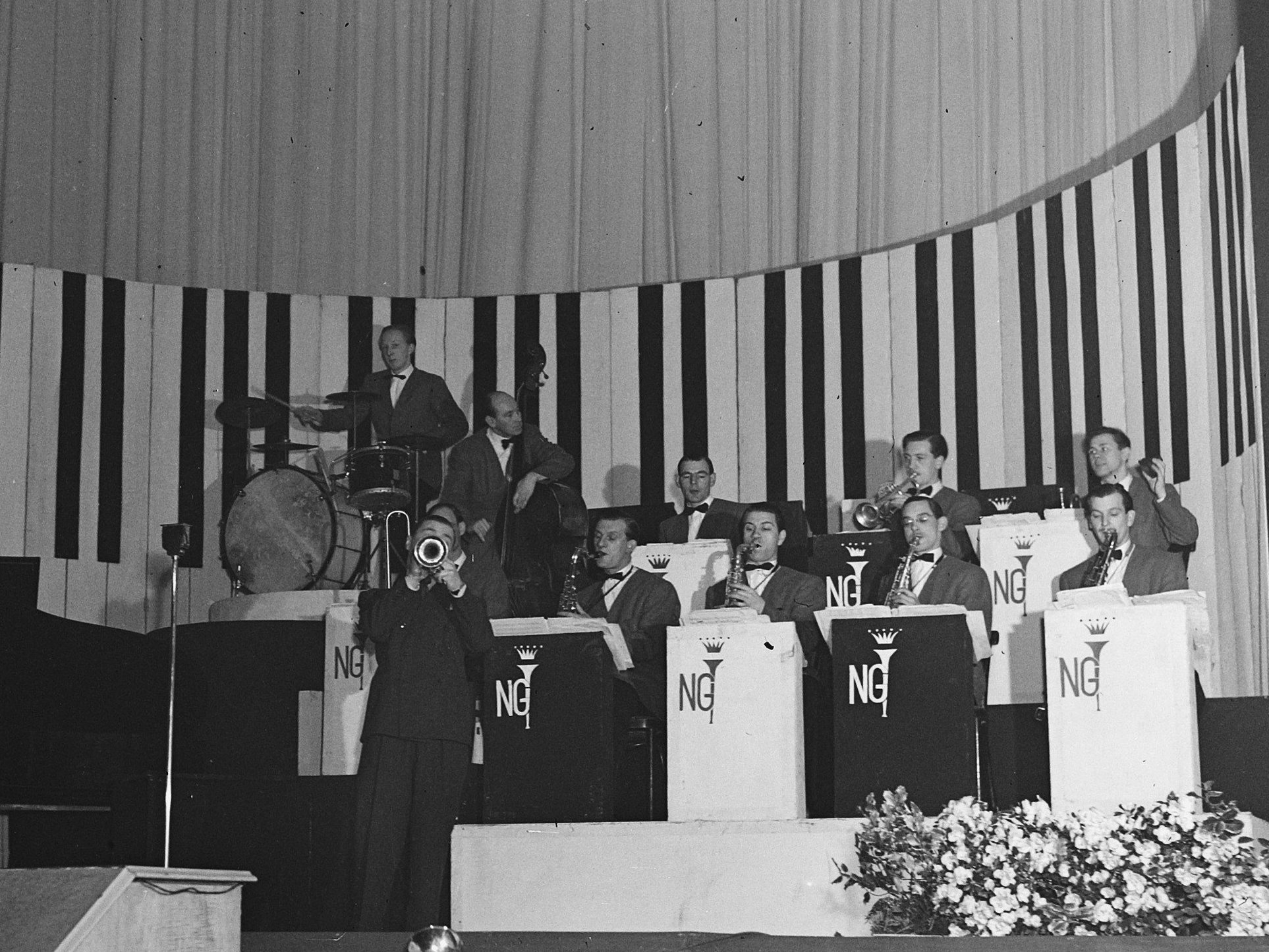 Nat Gonella and his 10-man band (The Georgians?) touring the Netherlands. Unknown venu, perhaps Kurhaus or Haarlem. Photo by Koos Raucamp (ANEFO), 6 Febr. 1946